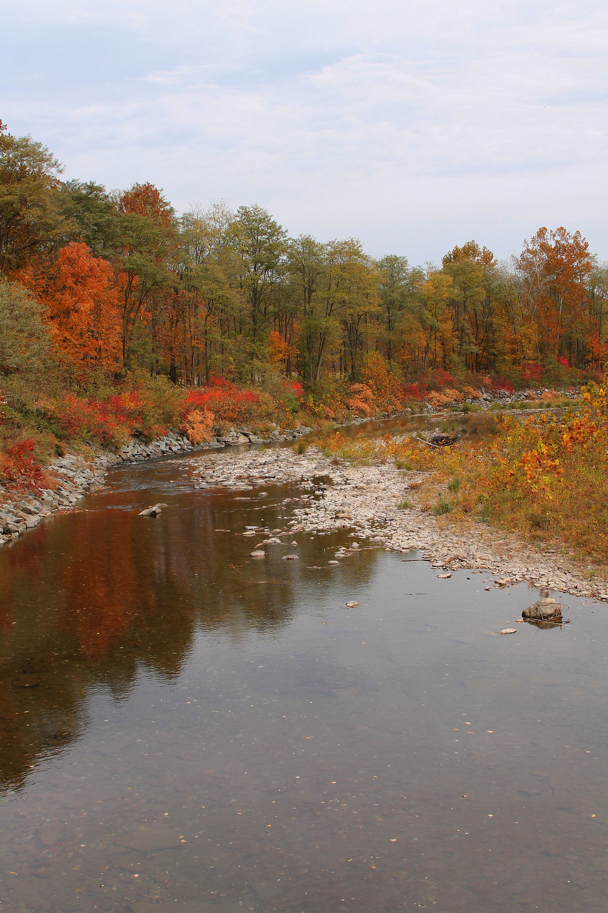 Bowman Creek looking downstream in its lower reaches from Keelersburg Road